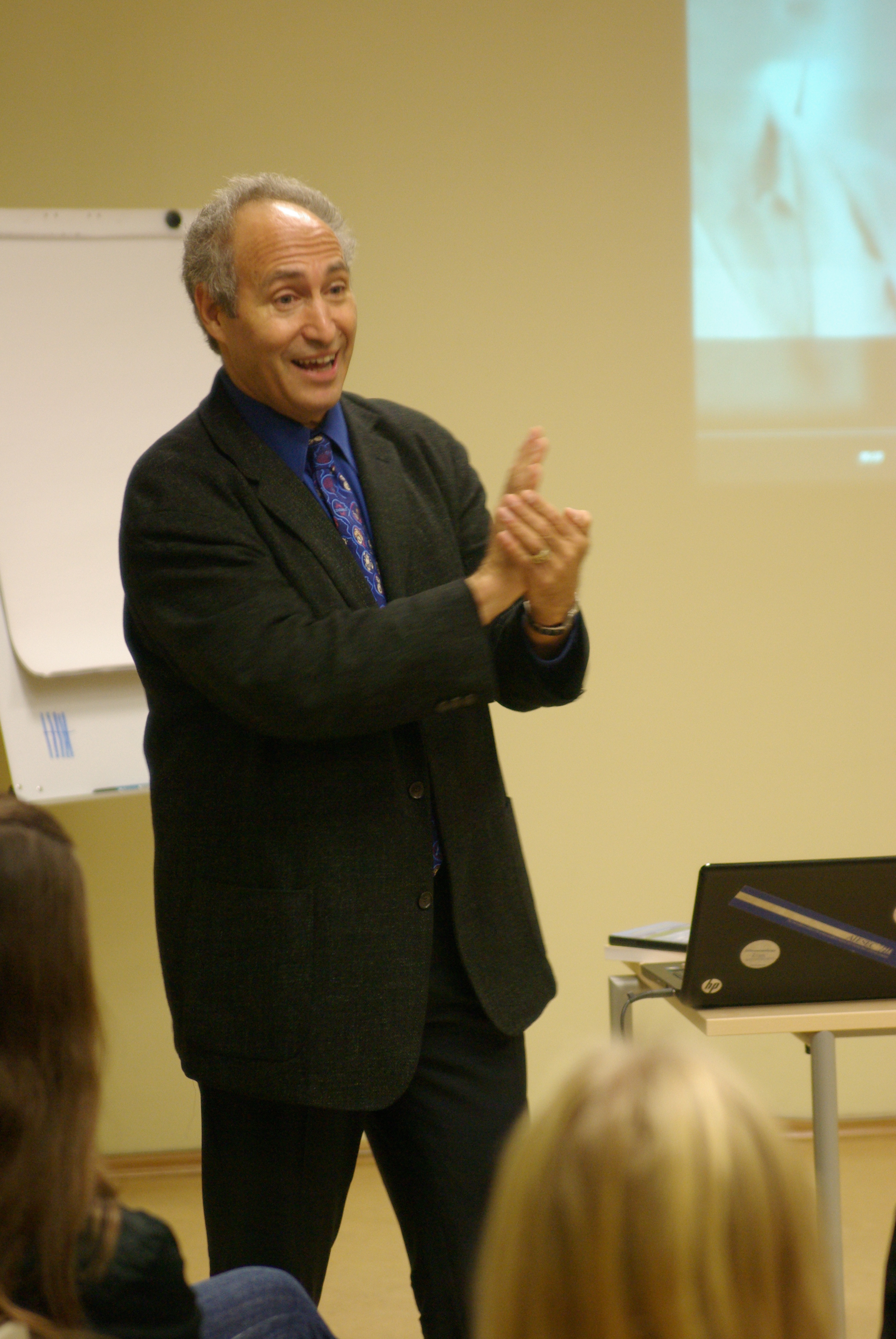 Todd Siler in Tartu (Estonia).